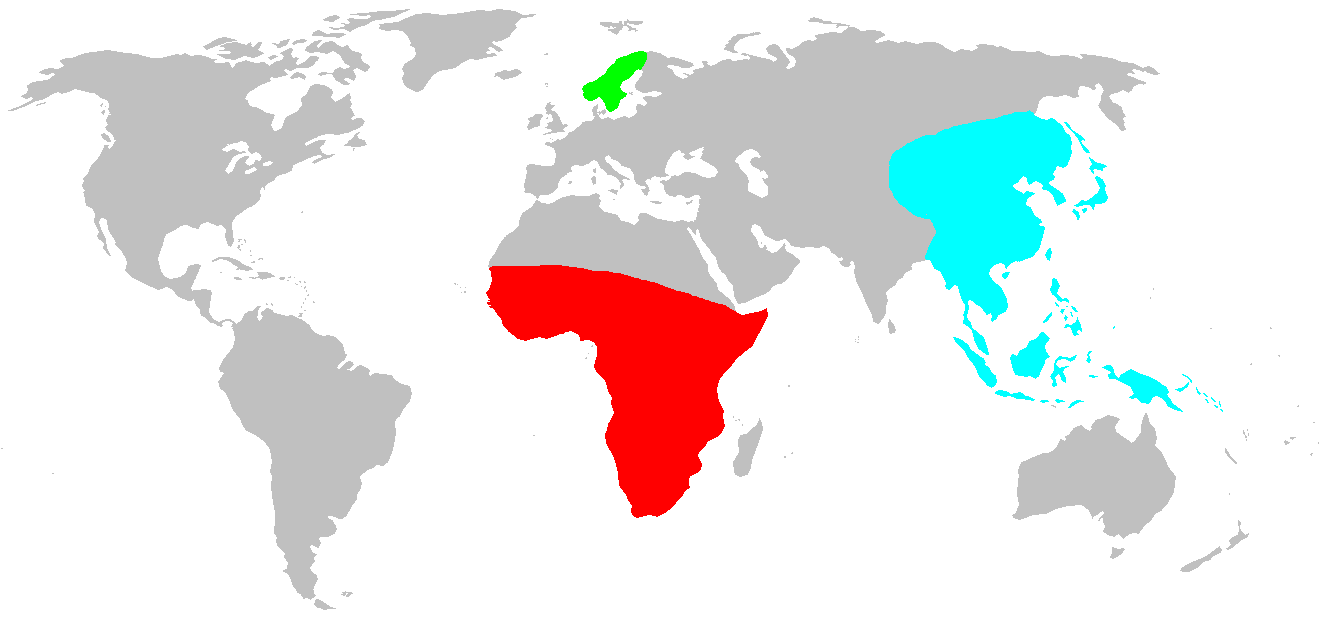 A map of Francois Berniers racial definitions